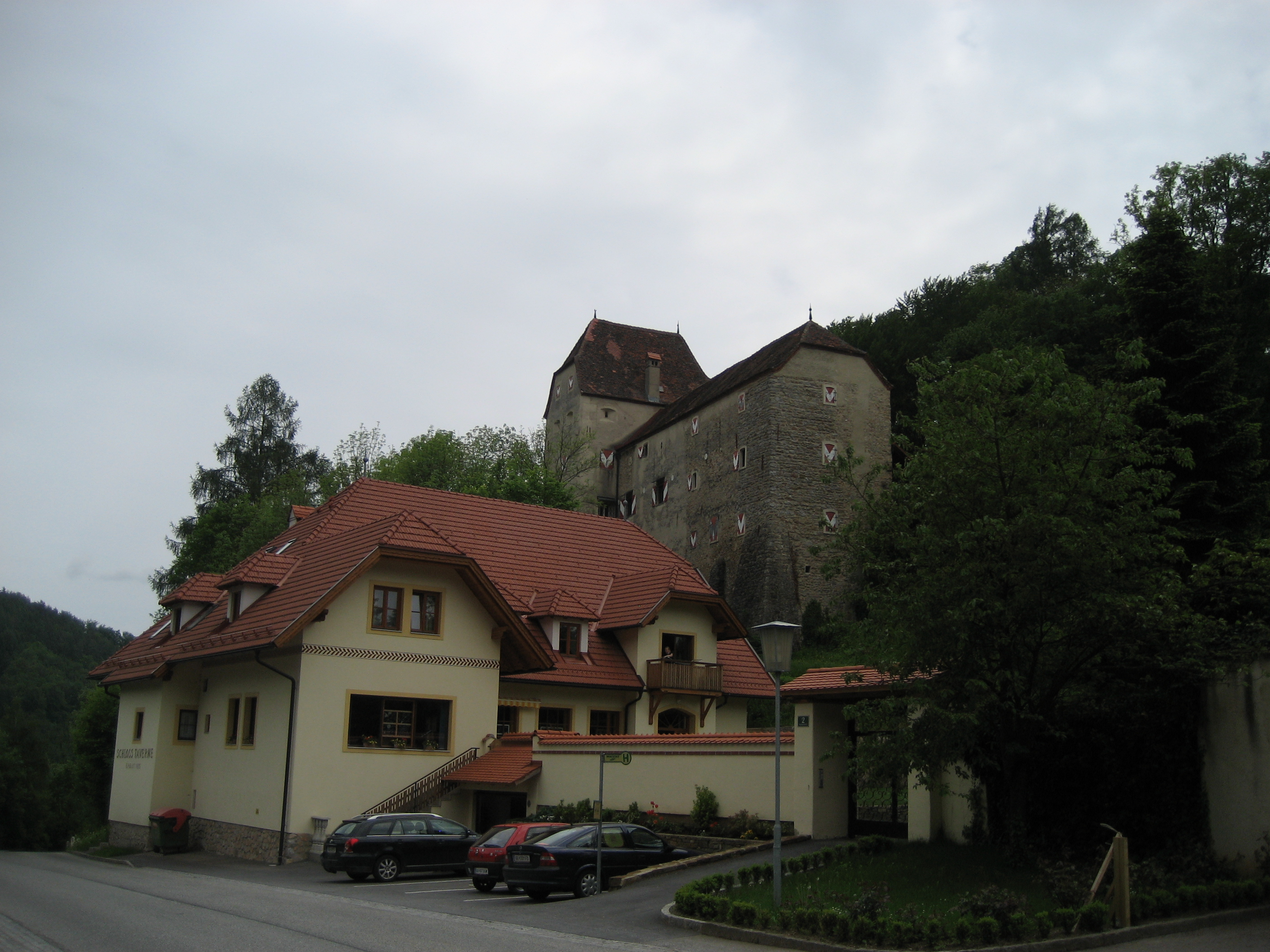 The so called Ludwigsburg, the outer ward of the castle Plankenwarth in St. Oswald ob Plankenwarth, Styria, Austria, Europe